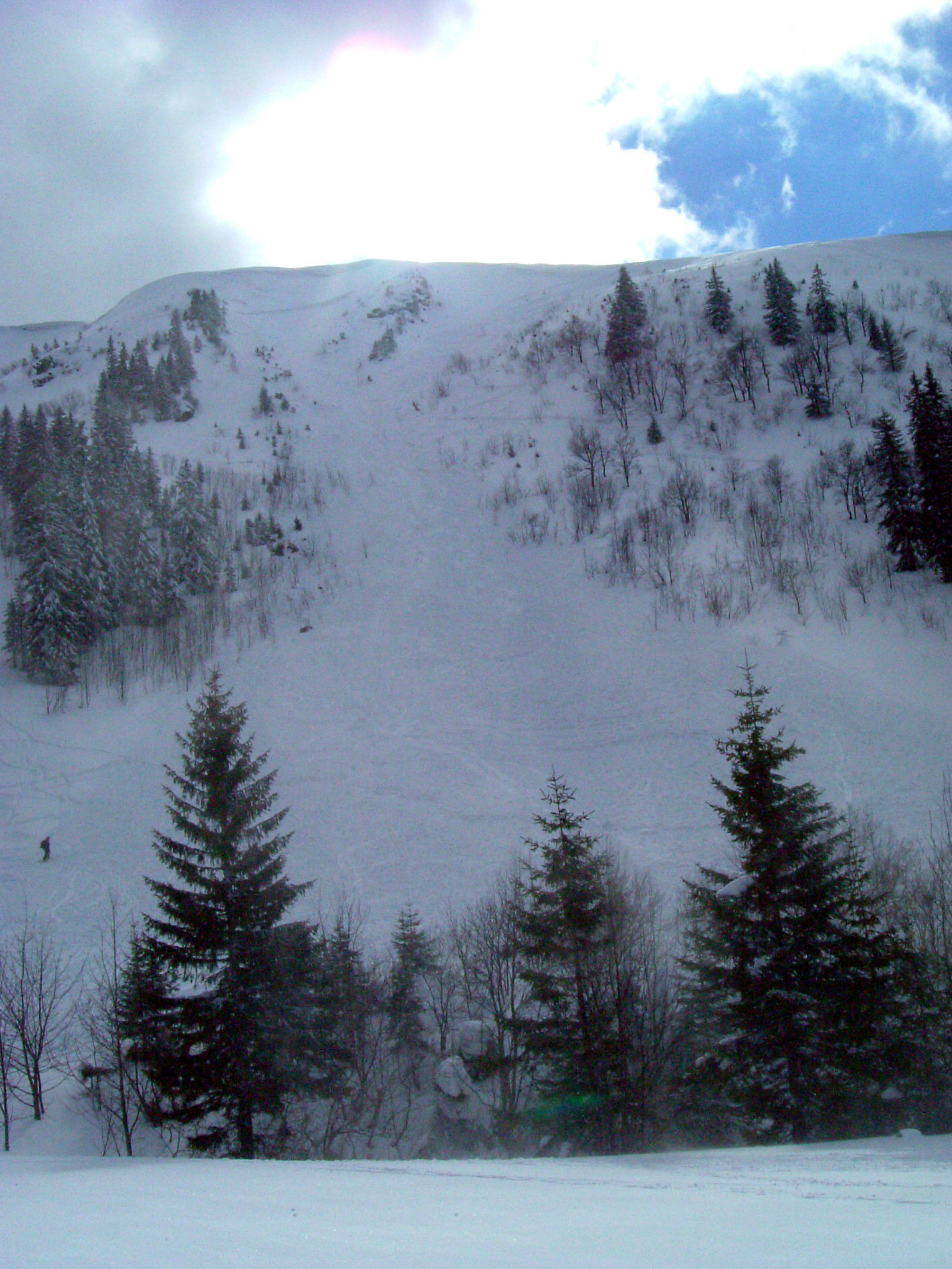 Slope in the Zastler valley (Feldberg, Black Forest, Germany) after avalanche